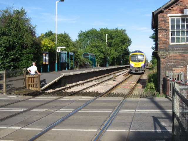 Howden railway station, North Howden in the East Riding of Yorkshire, England.The Wrong Way. A Westbound express passes through Howden Station.